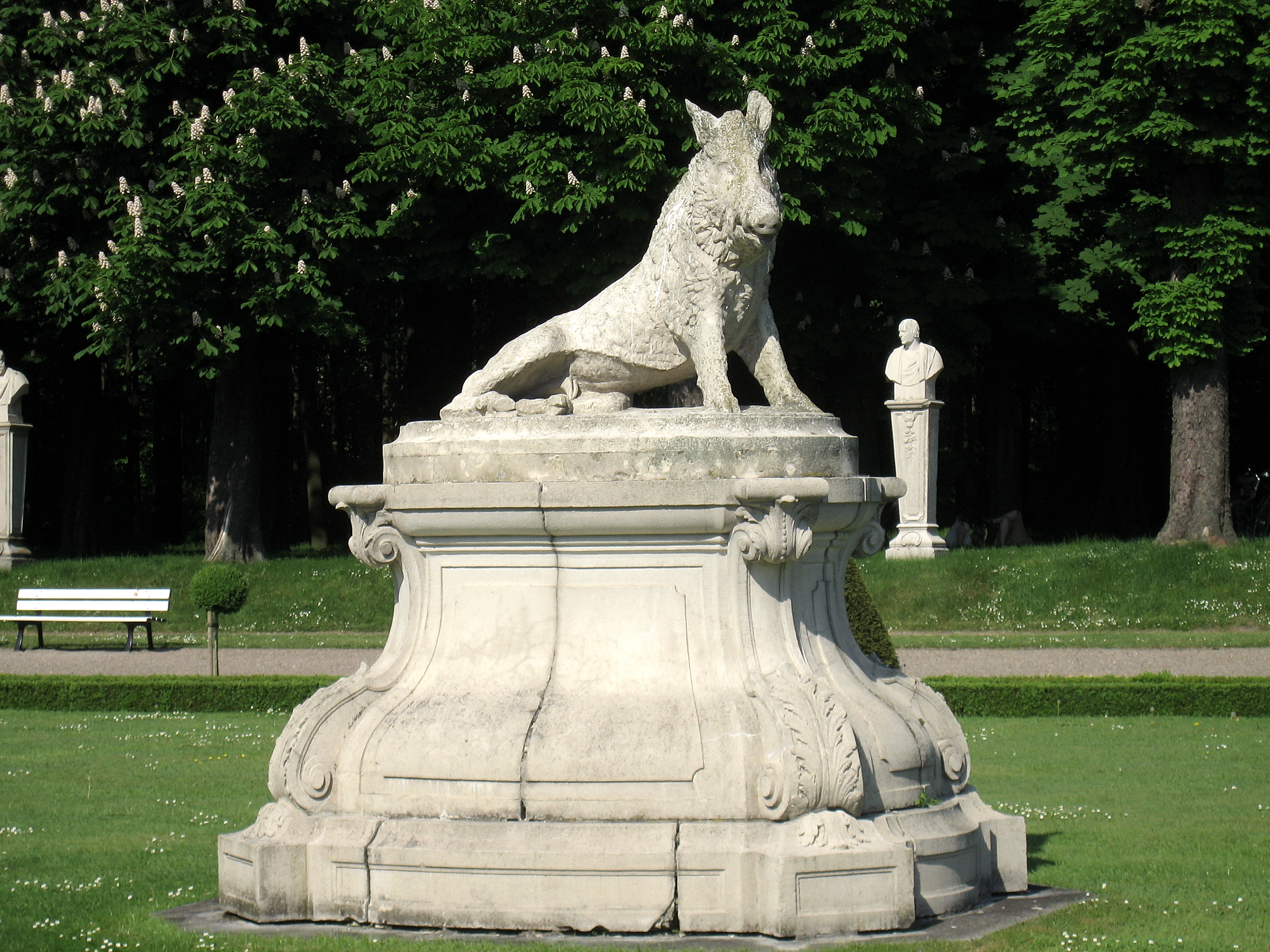 The Schloss Nordkirchen is situated in Nordkirchen, Kreis Coesfeld, near Münster, Germany, and is the biggest castle in that part of Germany